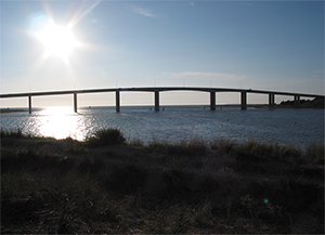 This is the bridge between Fromentine (part of the commune of La-Barre-de-Monts) and Barbâtre (on Île de Noirmoutier). On the right site you can see the southeast point of the island (called: La Fosse).